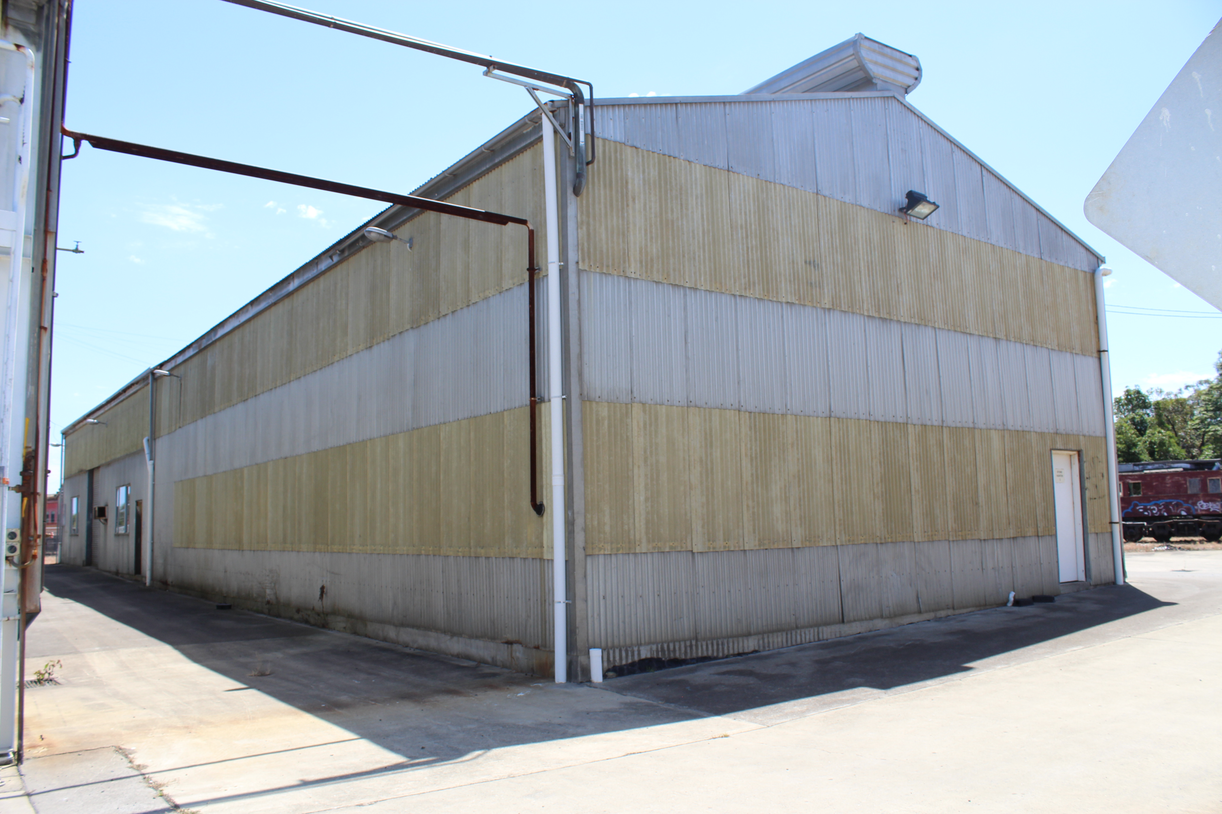 Workshop & Stores building at Broadmeadow Loco Depot